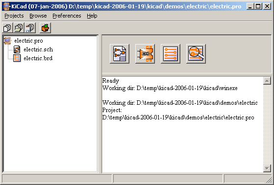 Kicad project manager main window